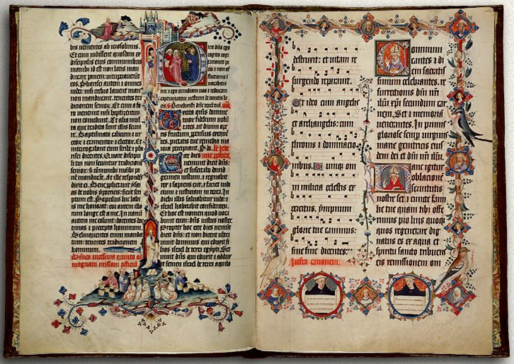 SHERBORNE MISSAL, pages 356 and 367